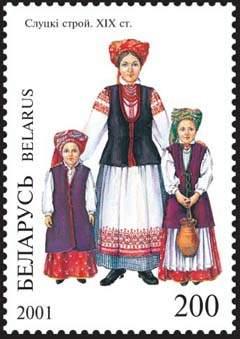 Słucki Stroj stamp